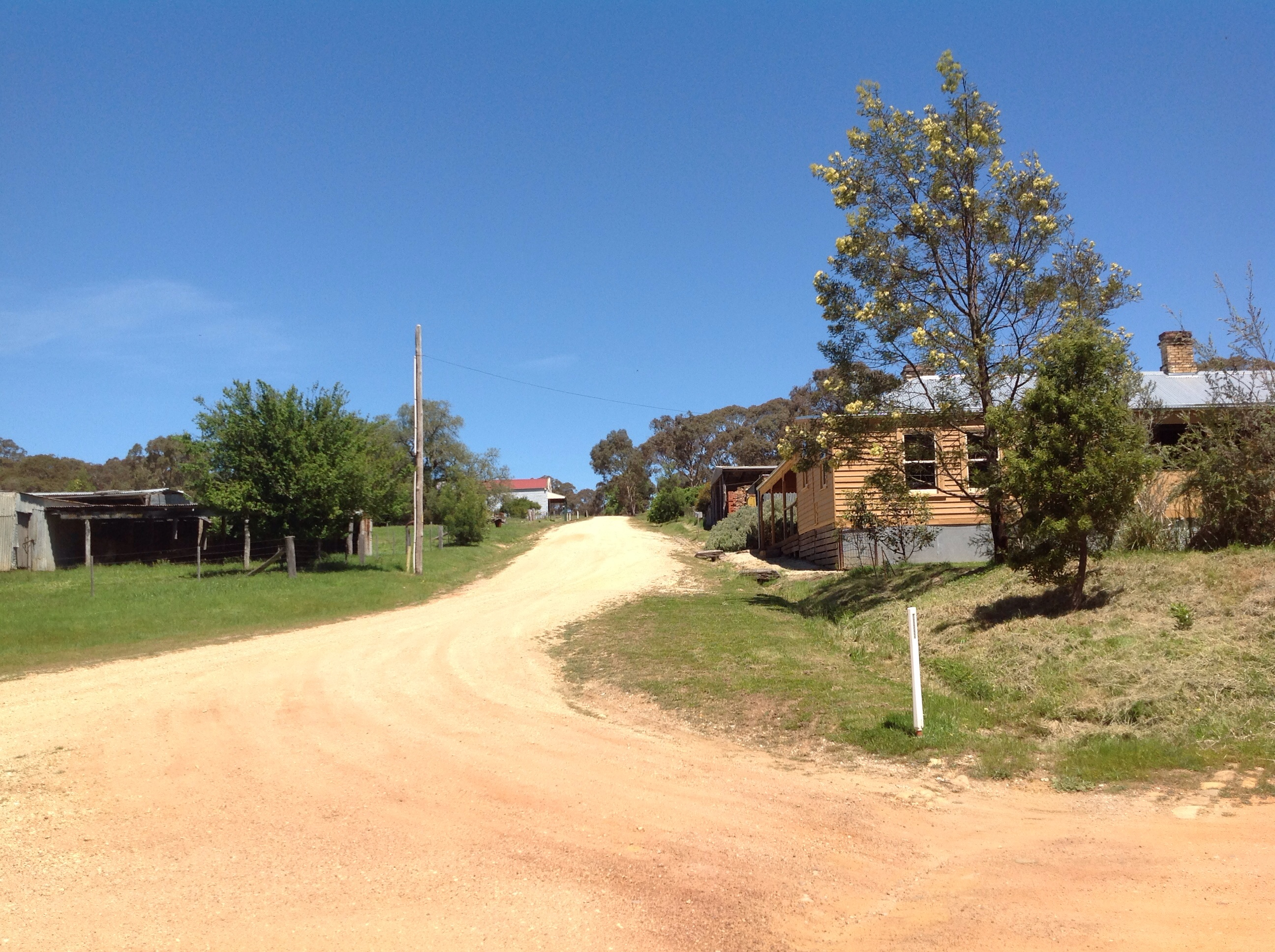 Former Main Street of Steiglitz, Victoria, Australia. A shadow of its former self in colonial gold rush days when the town contained over 300 houses, hotels, shops and mines.